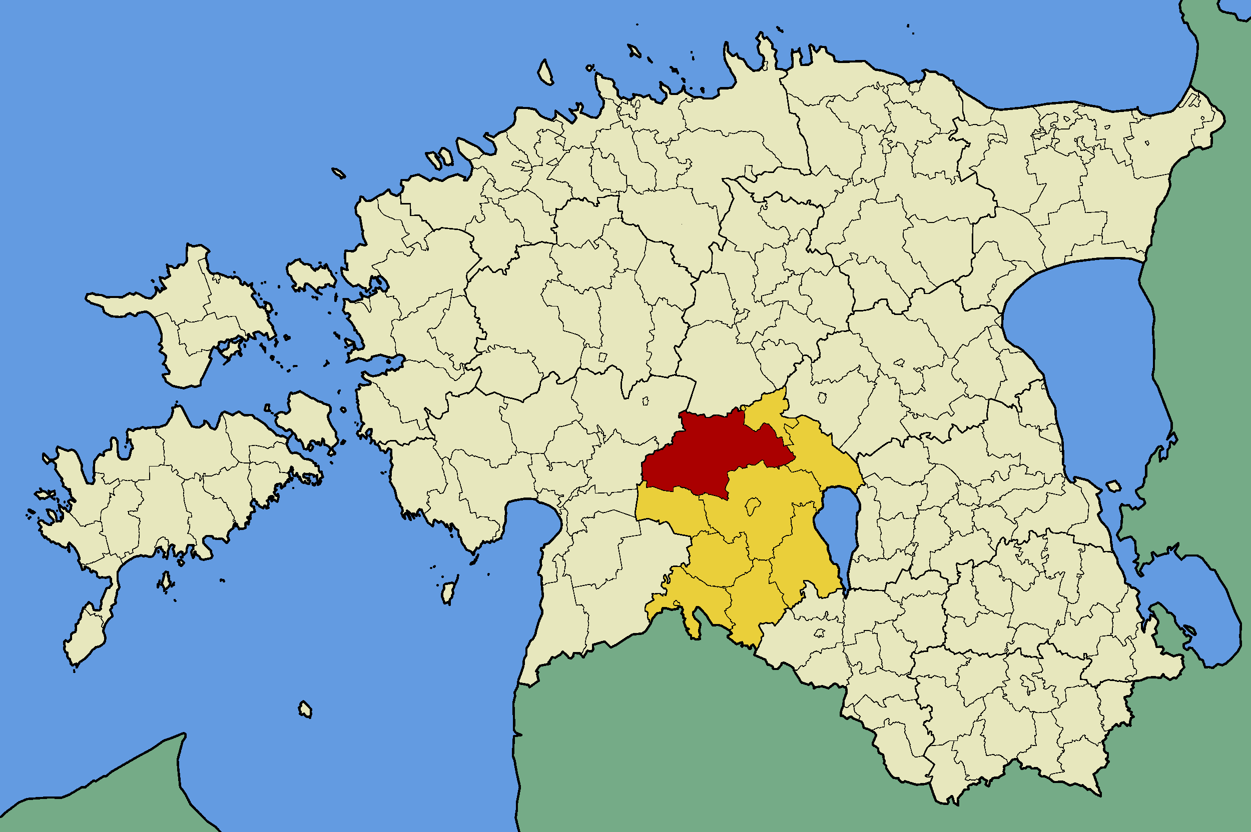 Map of Estonia with borders of municipalities (parishes). Viljandi county and Suure-Jaani municipality emphasized.